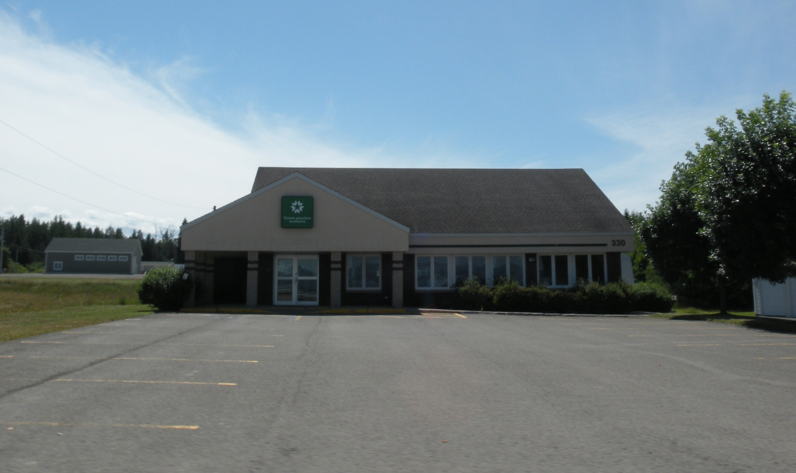 The credit union in Charlo, New Brunswick, Canada.